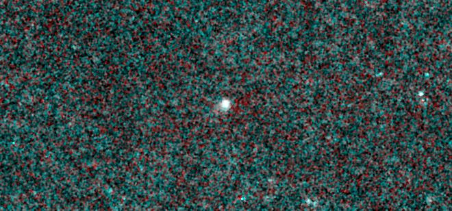 NEOWISE Spies Comet C/2013 A1 Siding Spring Comet Siding Spring Encounters Mars Click here for larger version of PIA17833 - Figure 1 NASA's NEOWISE mission captured images of comet C/2013 A1 Siding Spring, which is slated to make a close pass by Mars on Oct. 19, 2014. The infrared pictures reveal a comet that is active and very dusty even though it was about 355 million miles (571 million kilometers) away from the sun on Jan. 16, 2014, when this picture was taken. The infrared measurements will allow astronomers to determine the sizes and quantity of dust particles being flung off the comet. The measurements will also give engineers some indications of what orbiting spacecraft at Mars might expect when the comet gets close. Preliminary analysis of the data indicate approximately 220 pounds (100 kilograms) of dust are being ejected from the comet's surface each second, assuming the grains are dark and nearly the density of water-ice. The comet's activity is expected to increase as it gets closer to Mars. JPL manages NEOWISE for NASA's Science Mission Directorate at the agency's headquarters in Washington. The Space Dynamics Laboratory in Logan, Utah, built the science instrument. Ball Aerospace & Technologies Corp. of Boulder, Colo., built the spacecraft. Science operations and data processing take place at the Infrared Processing and Analysis Center at the California Institute of Technology in Pasadena. Caltech manages JPL for NASA. More information is online at and and